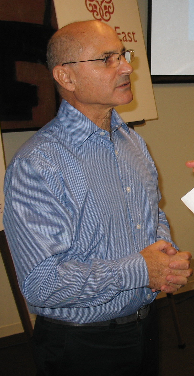 Dr. Yigal Kipnis